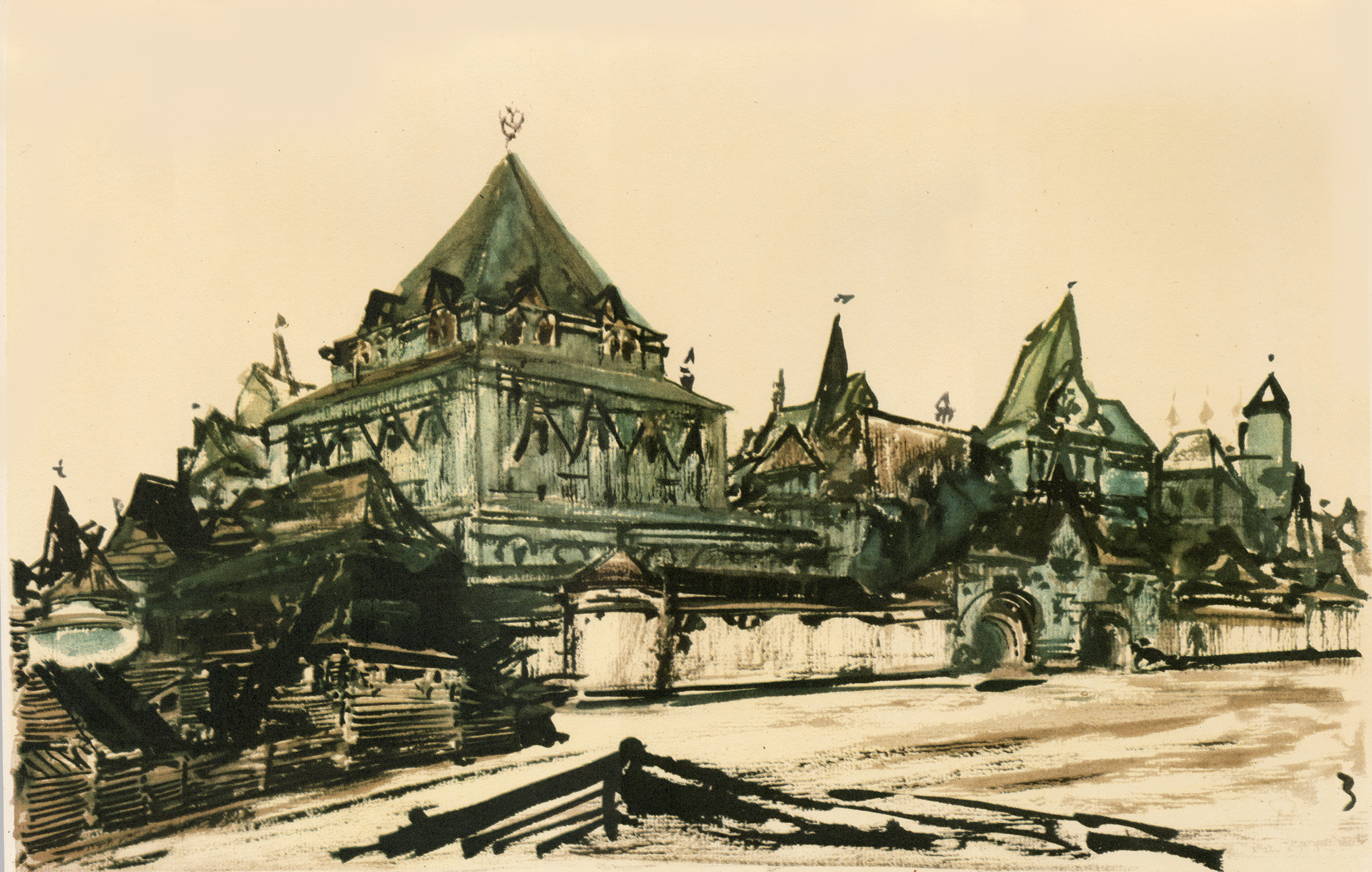 From old Russian architecture